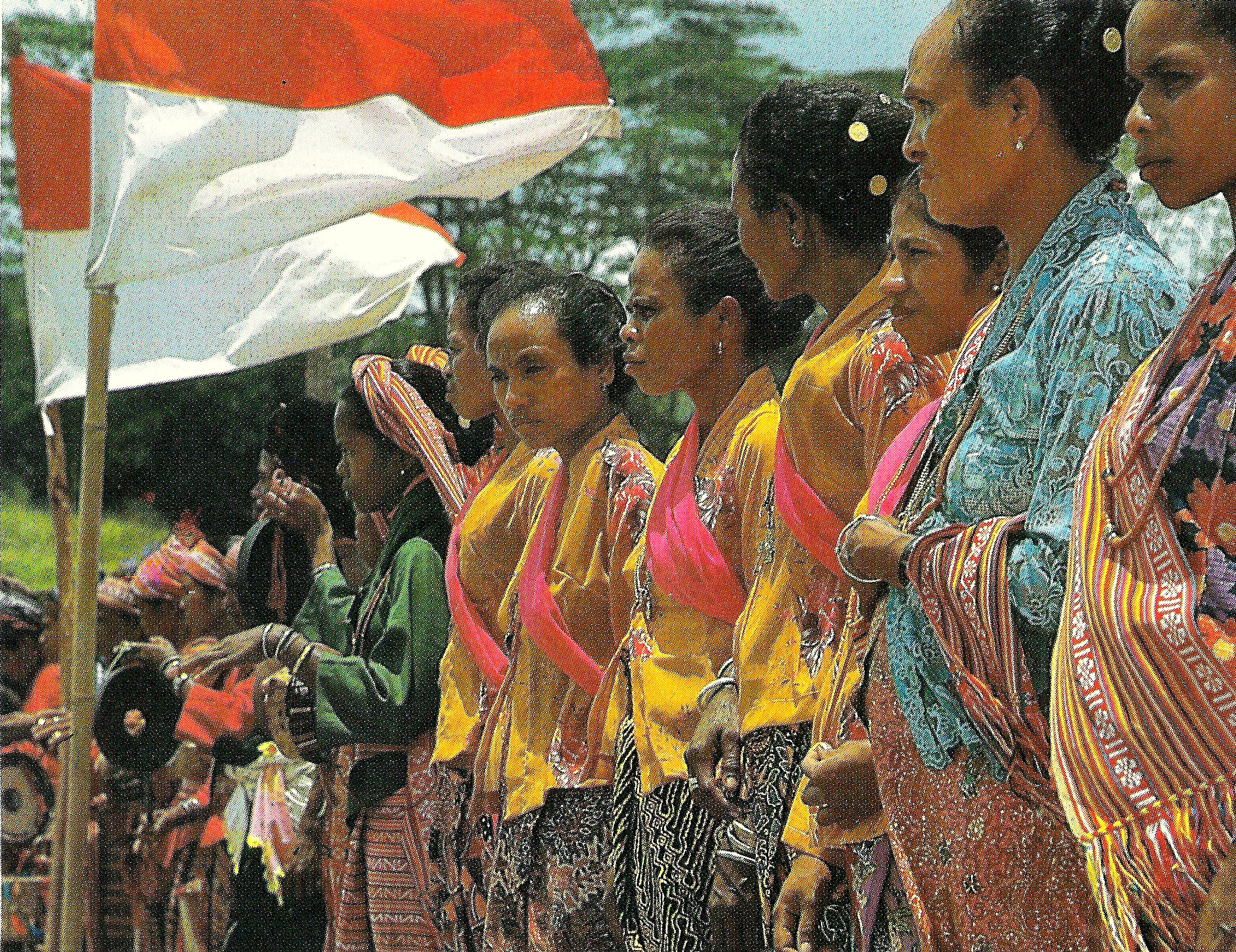 Original caption: "The Timorese with their national flag, red and white."